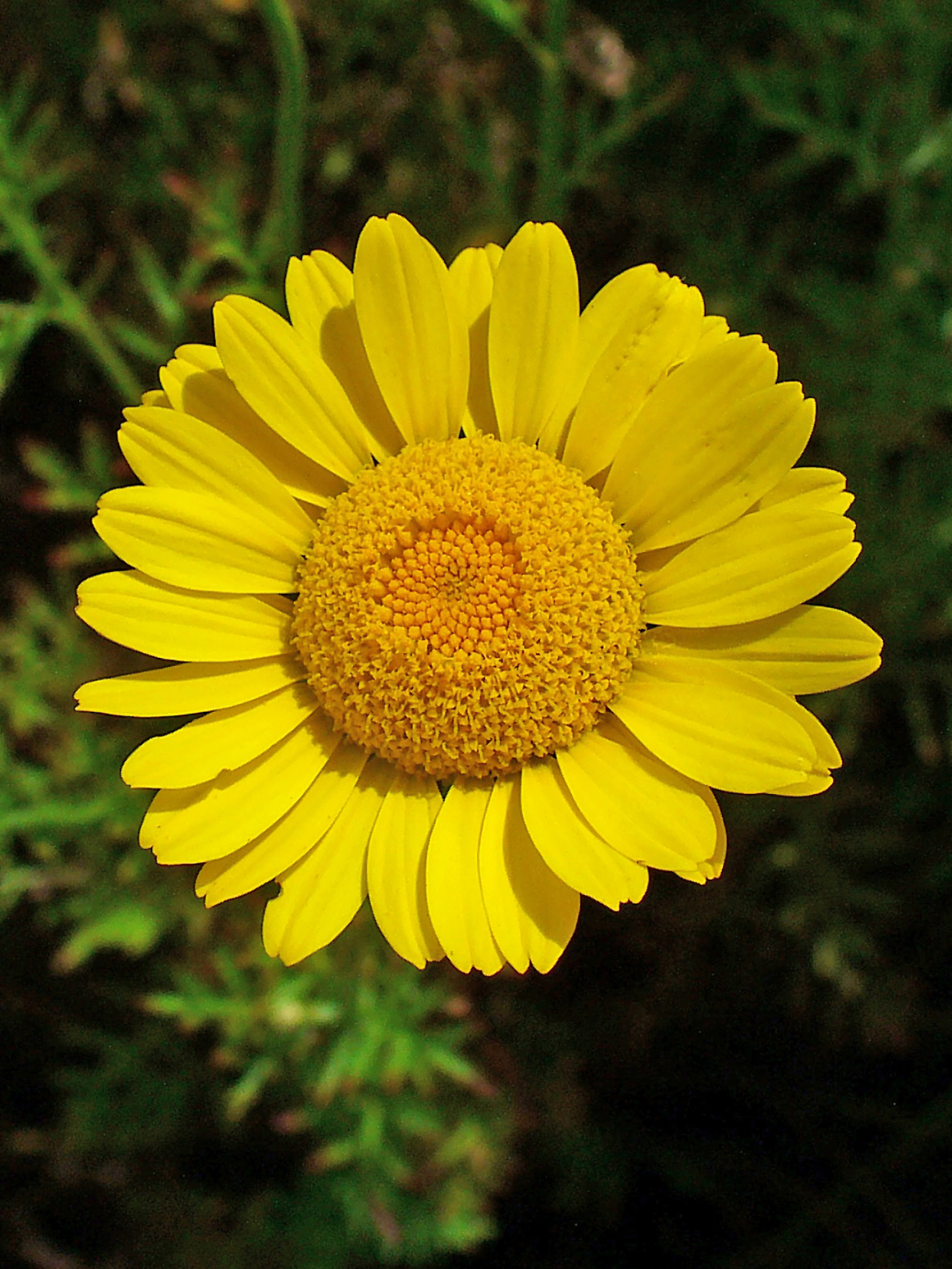 Anthemis tinctoria, Asteraceae, Golden Marguerite, Yellow Chamomile, inflorescence; Botanical Garden KIT, Karlsruhe, Germany.